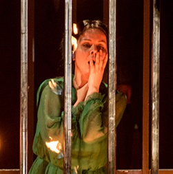 Opera "La Juive" by Eugène Scribe and Jacques Fromental Halévy, new production at Bayerische Staatsoper (Bavarian State Opera) in Munich, June 2016, directed by Calixto Bieito, sets by Rebecca Ringst, costumes by Ingo Krügler, video design by Sarah Derendinger, light design by Michael Bauer, conducted by Bertrand de Billy - with Aleksandra Kurzak (Rachel) in the final scene